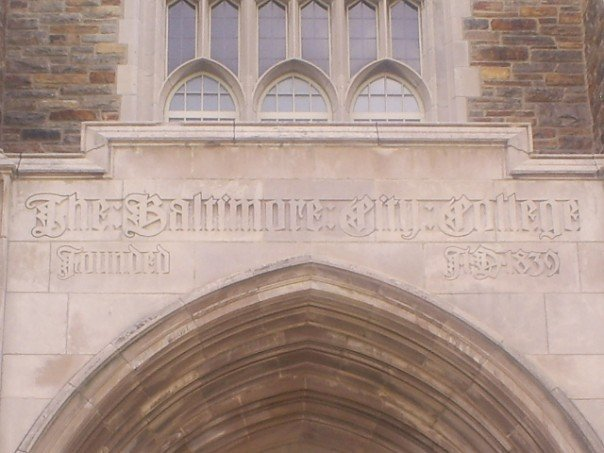 Picture of the Castle on the Hill entrance.